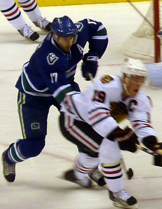 Vancouver Canucks forward Ryan Kesler checking Chicago Blackhawks captain Jonathan Toews at GM Place on November 22, 2009.